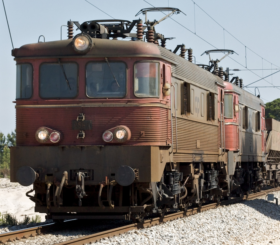 Locomotives 2560 and 2557 of the Portuguese Railways, near the Somincor goods station, in Alcácer do Sal, Portugal.